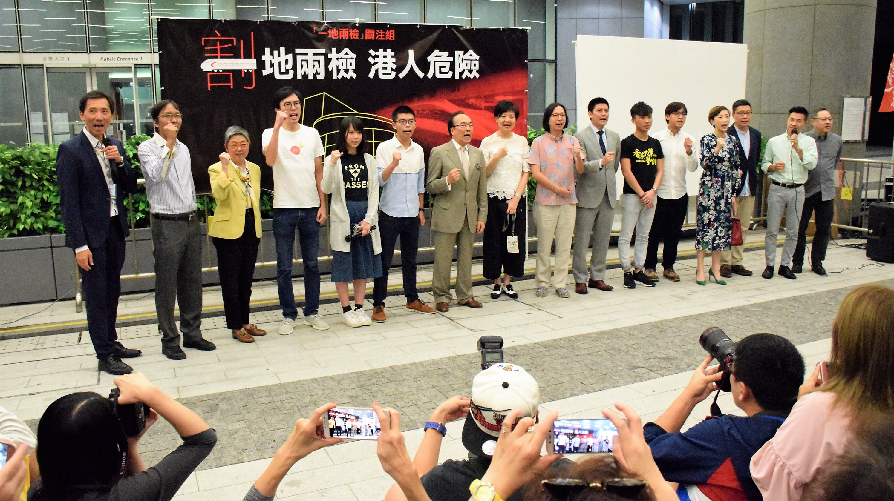 香港一地兩檢關注組反西九一地兩檢集會 (美國之音湯惠芸拍攝)